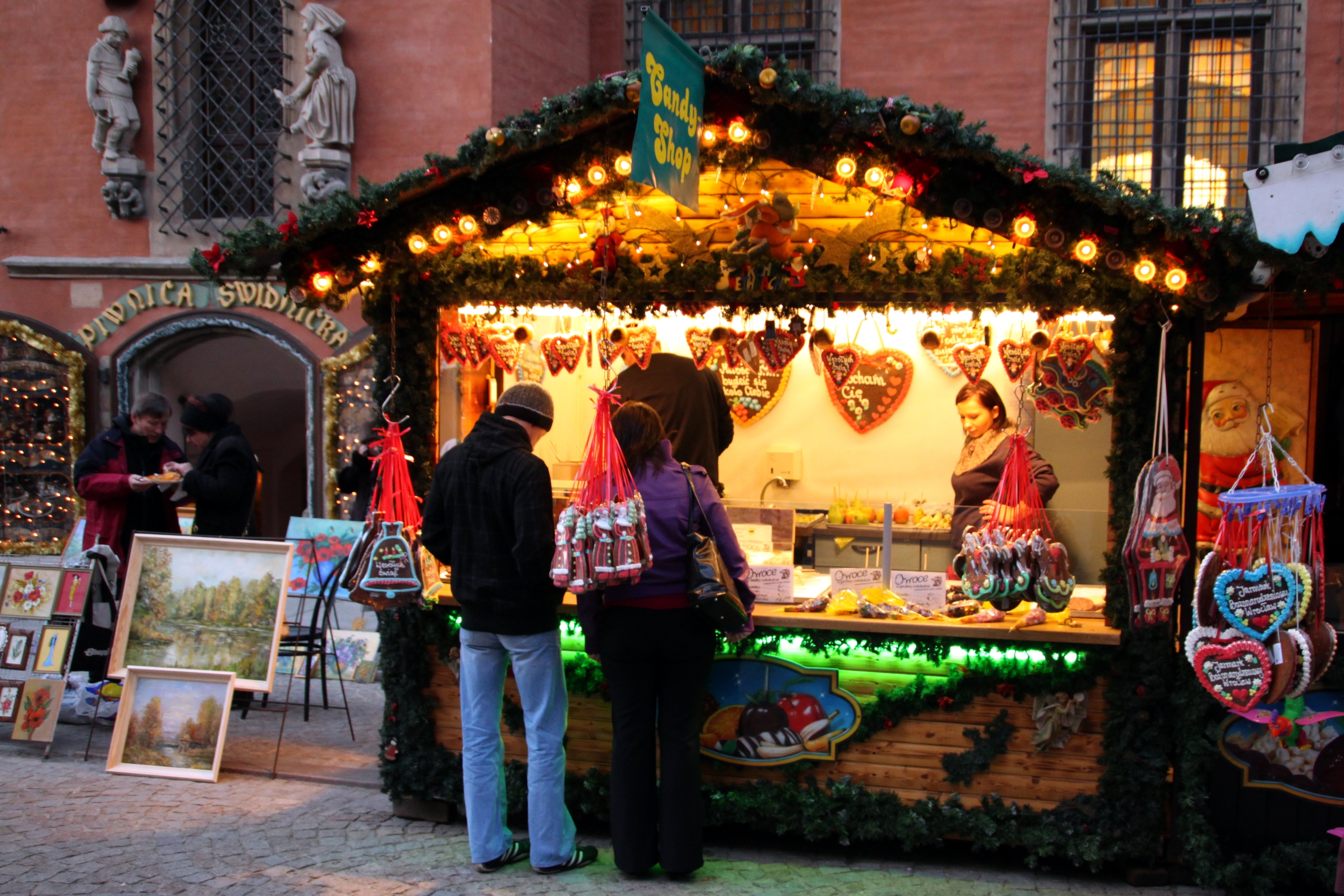 Candy Shop at the Cristmas Fair at Rynek, the centre of the Polish city Wroclaw... It smells like Christmas!